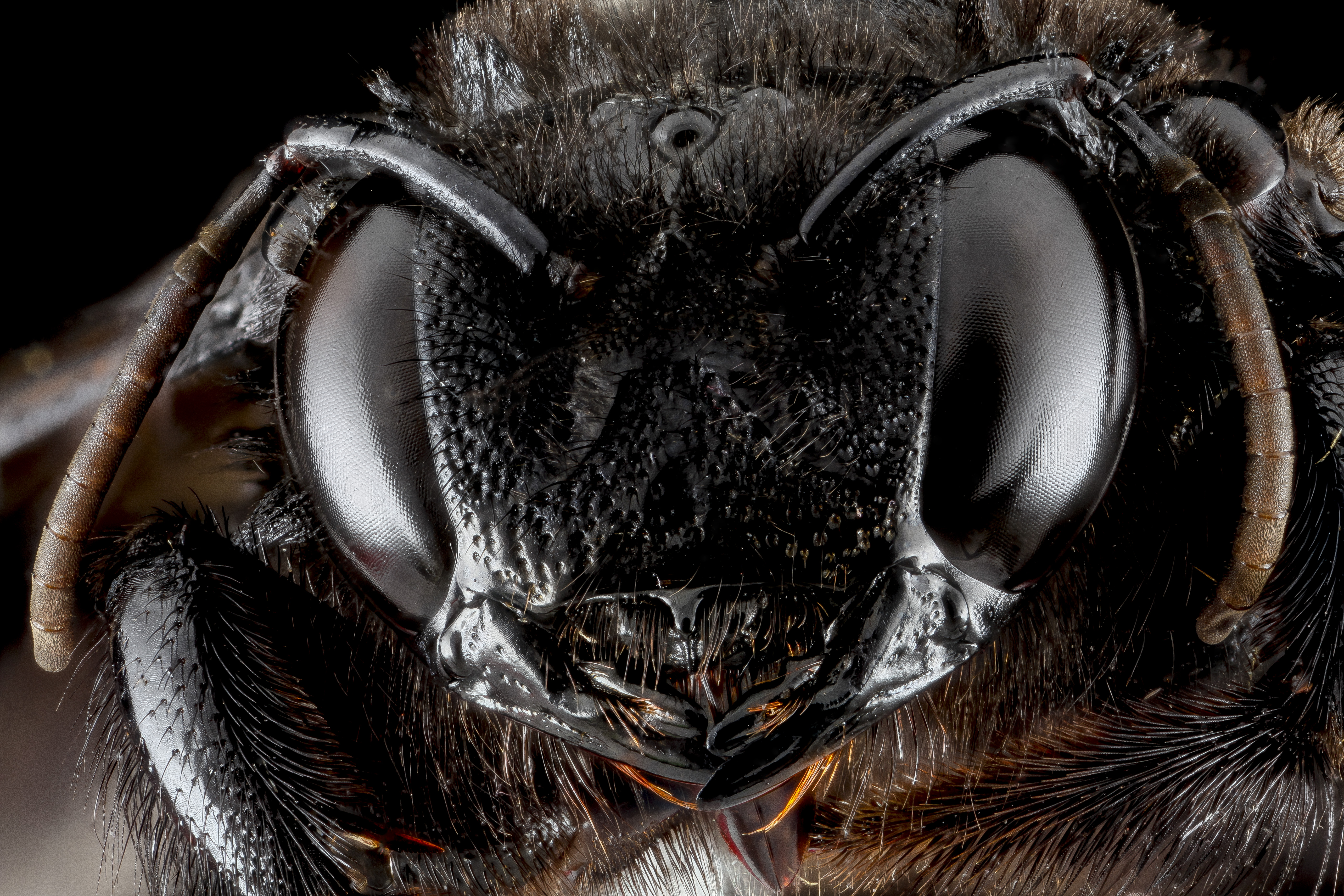 Xylocopa cubaecola, female, on the base of Guantanamo Bay, GTMO, Cuba, endemic Cuban Carpenter Bee